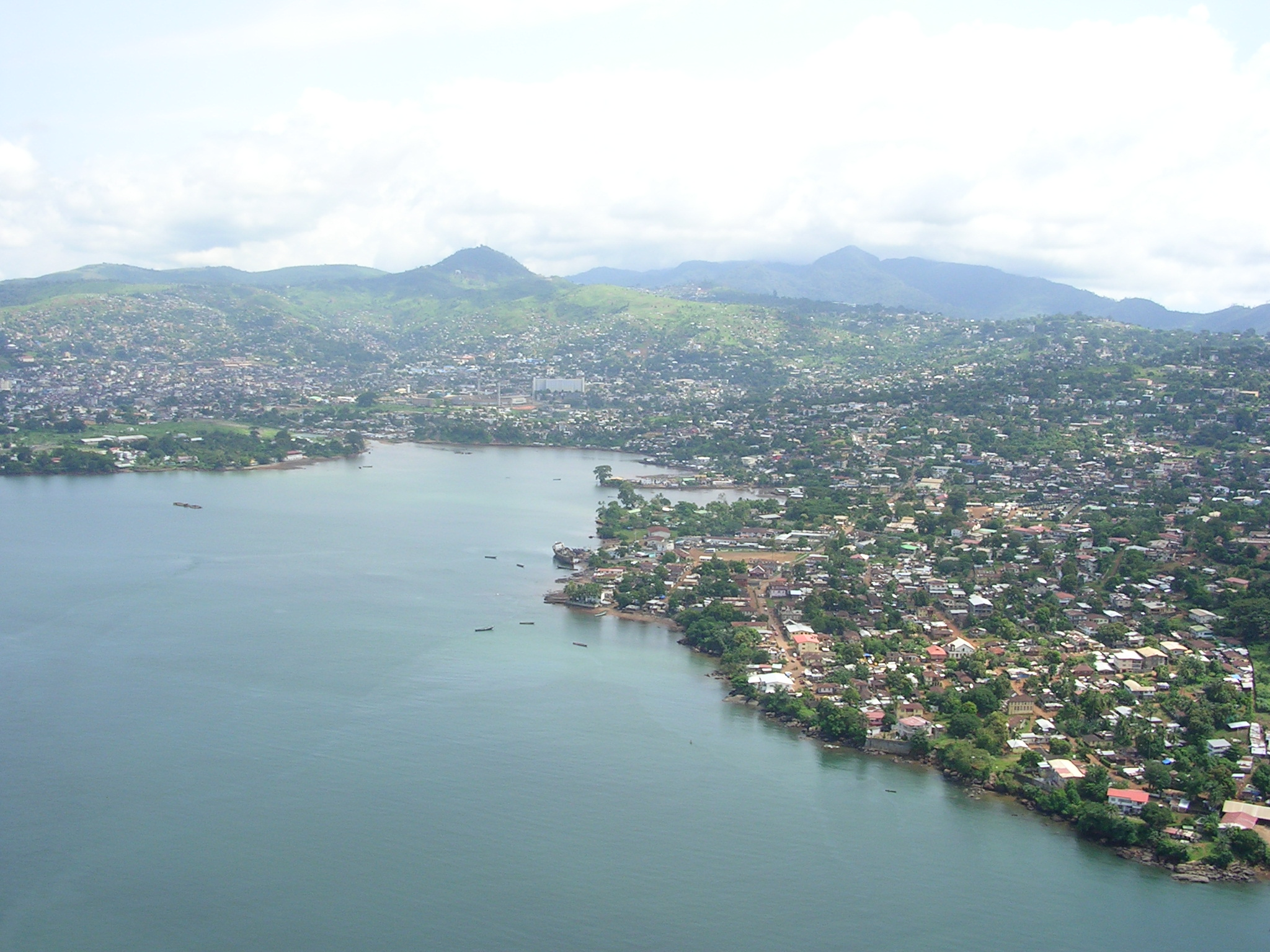 Aerial view of Freetown, Sierra Leone, a helicopter expedition to Lungii airport, over the Freetown Harbour.